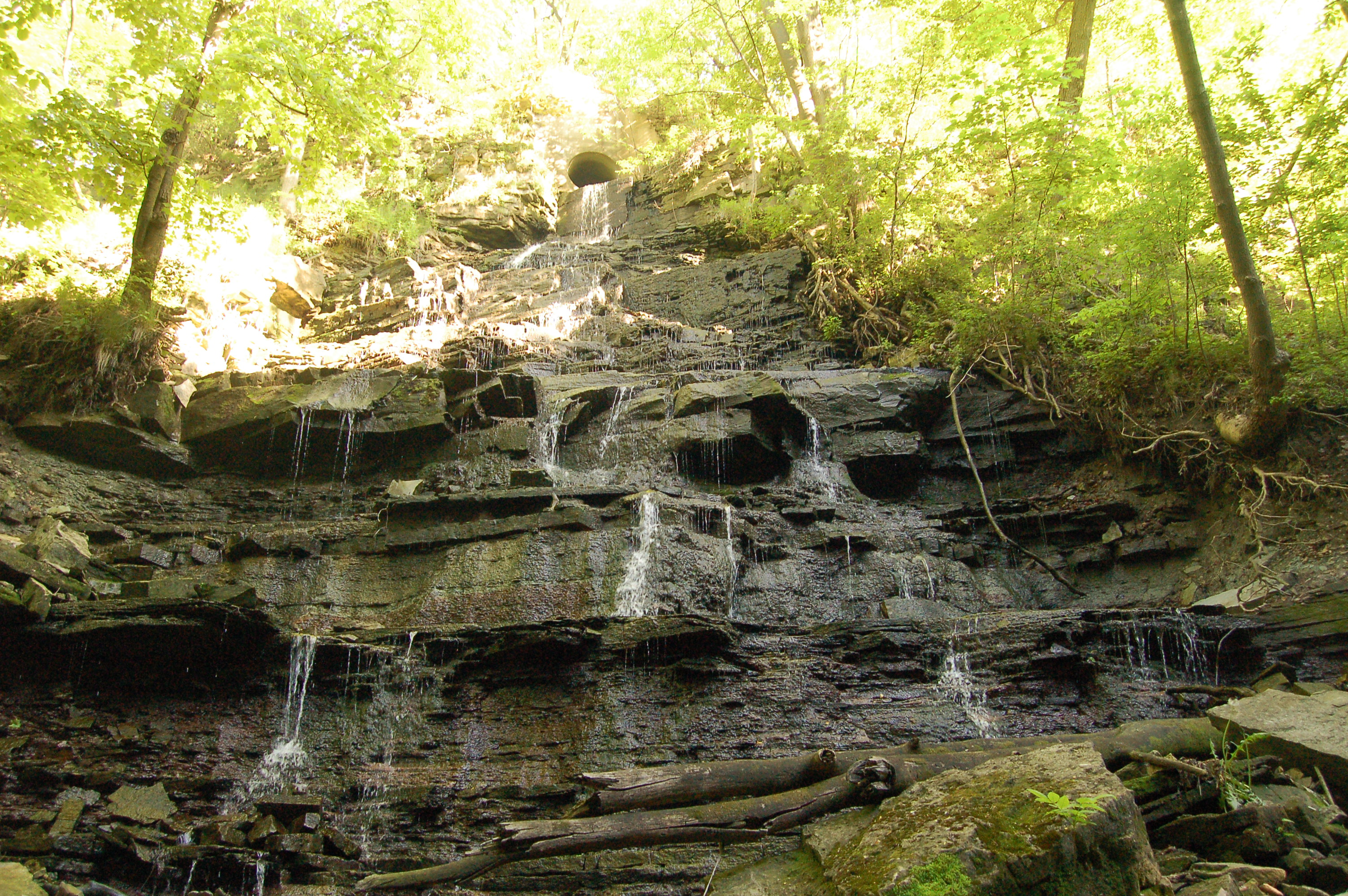 Denlow Falls (East Chedoke Falls)